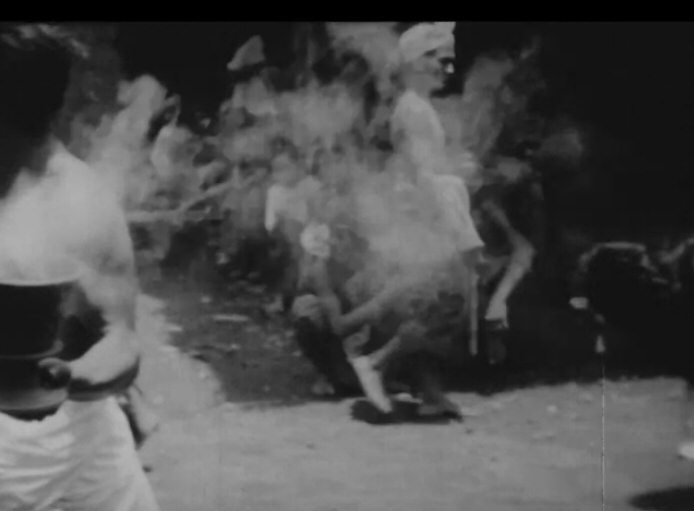 Still from pioneering anthropology documentary film Trance and Dance in Bali by Gregory Bateson and Margaret Mead, shot in the 1930s, released in 1952